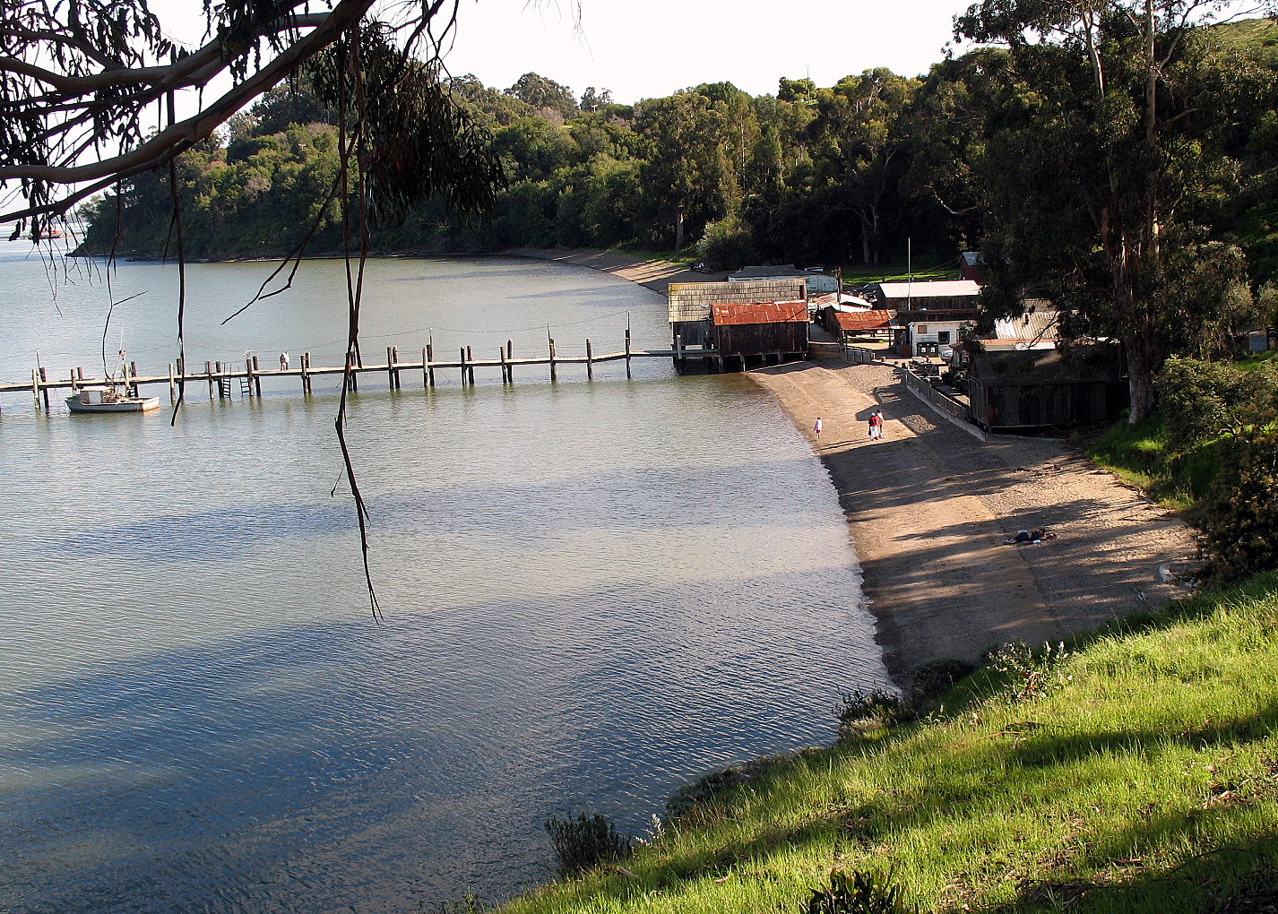 National Register of Historic Places in Marin County, California. China Camp, China Camp State Park, San Rafael, CA. Photographed from the parking lot to the north of the Chinese fishing village.